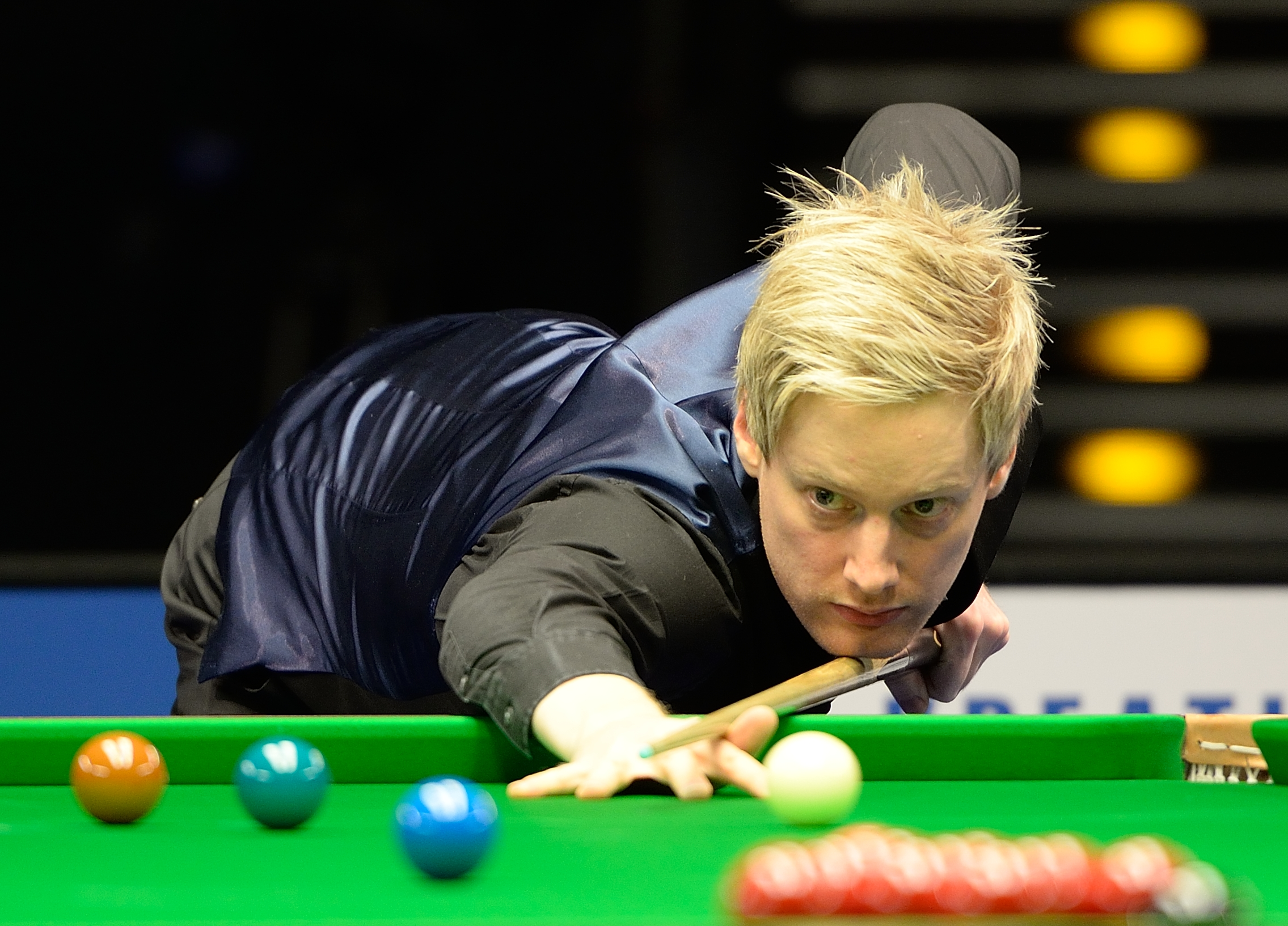 Picture taken in Berlin during the Snooker German Masters in 2015. Neil Robertson.